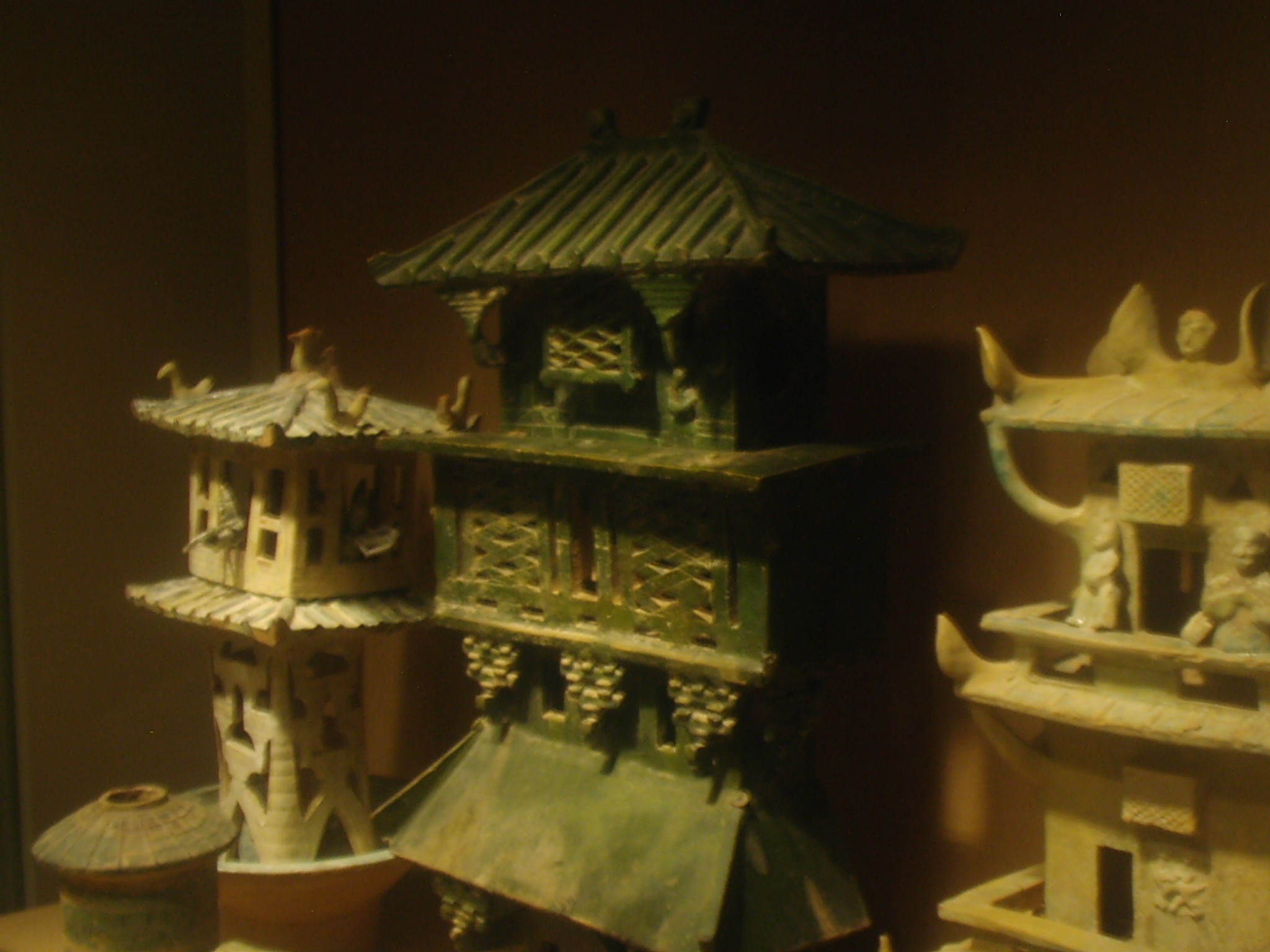 This is one of twelve pictures showing architectural models dated to the Chinese Eastern Han Dynasty (25–220 AD), made of earthenware with a green lead glaze, featured at the Metropolitan Museum of Art in New York City. The items include: Three watchtowers House with a courtyard Granary tower A large stove A mill A wellhead with a bucket Domesticated animal pens A square duck pond with rails